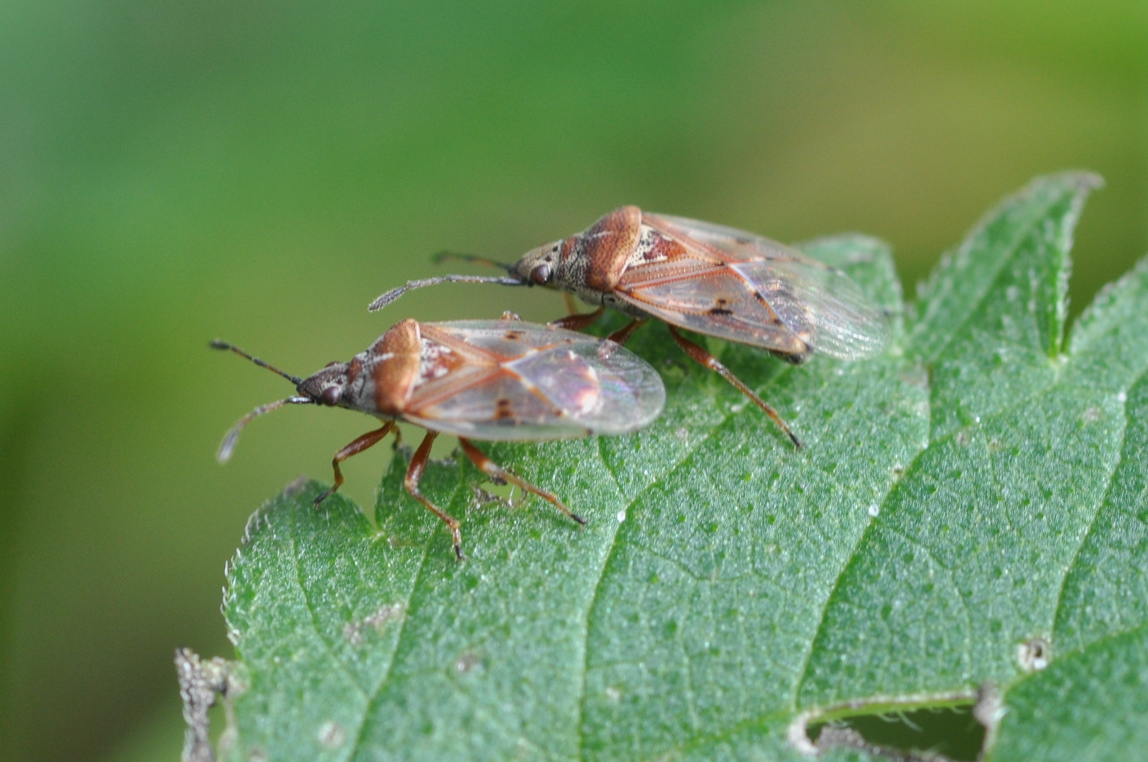 Birch Catkin Bugs Kleidocerys resedae on stinging nettle Urtica dioica in Bahrenfeld, Hamburg.